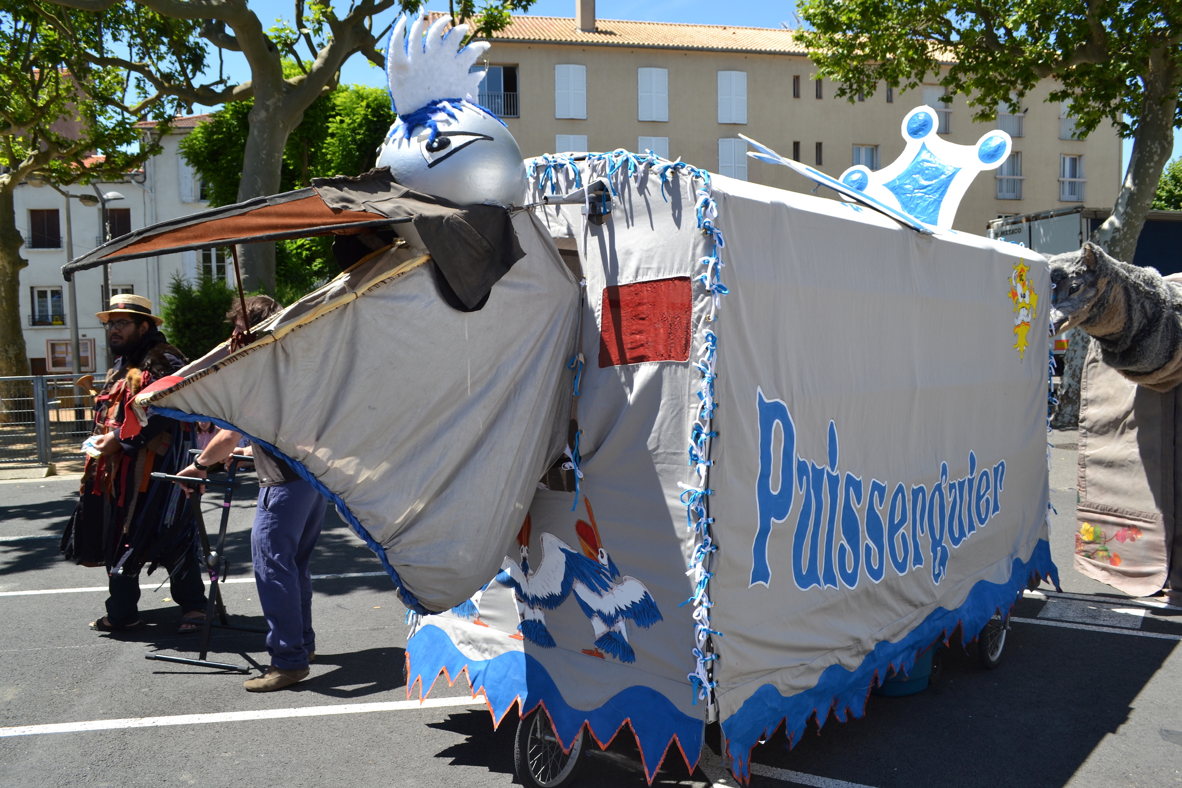 Pelican, Puisserguier totemic animal, during Euroregional Forum "Heritage and creation" in Castelnaudary in 2016.